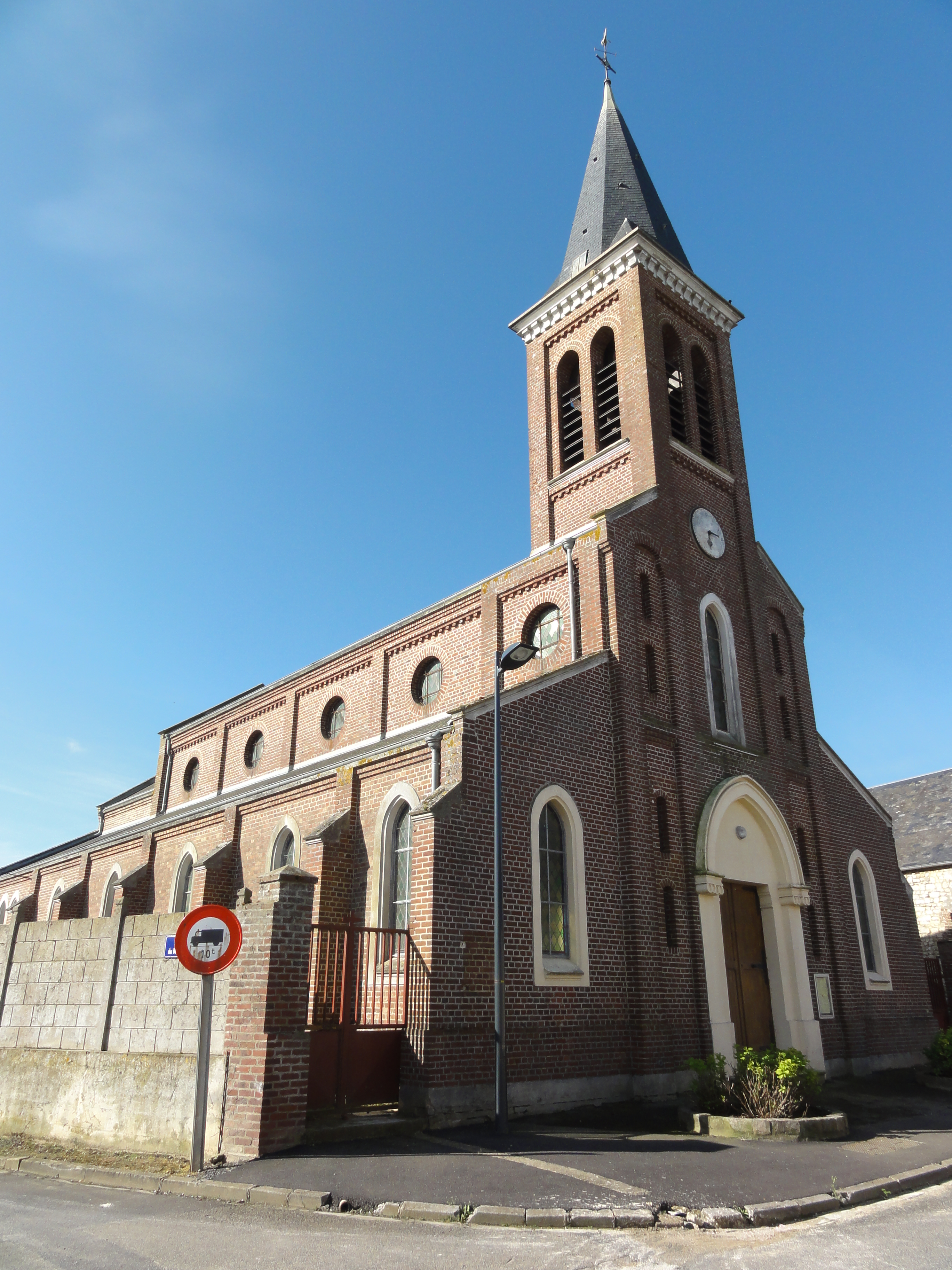 Monceau-le-Waast (Aisne) église